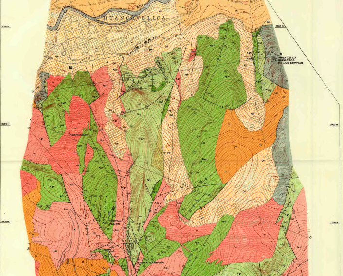 Huancavelica geologic map